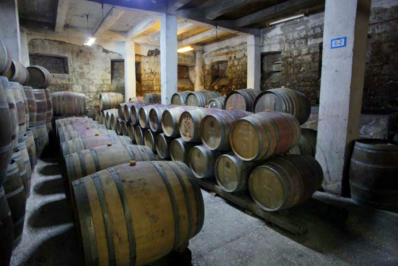 Voskevaz winery, Aragatsotn, Armenia.